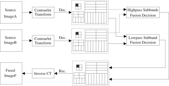 MGA diagram